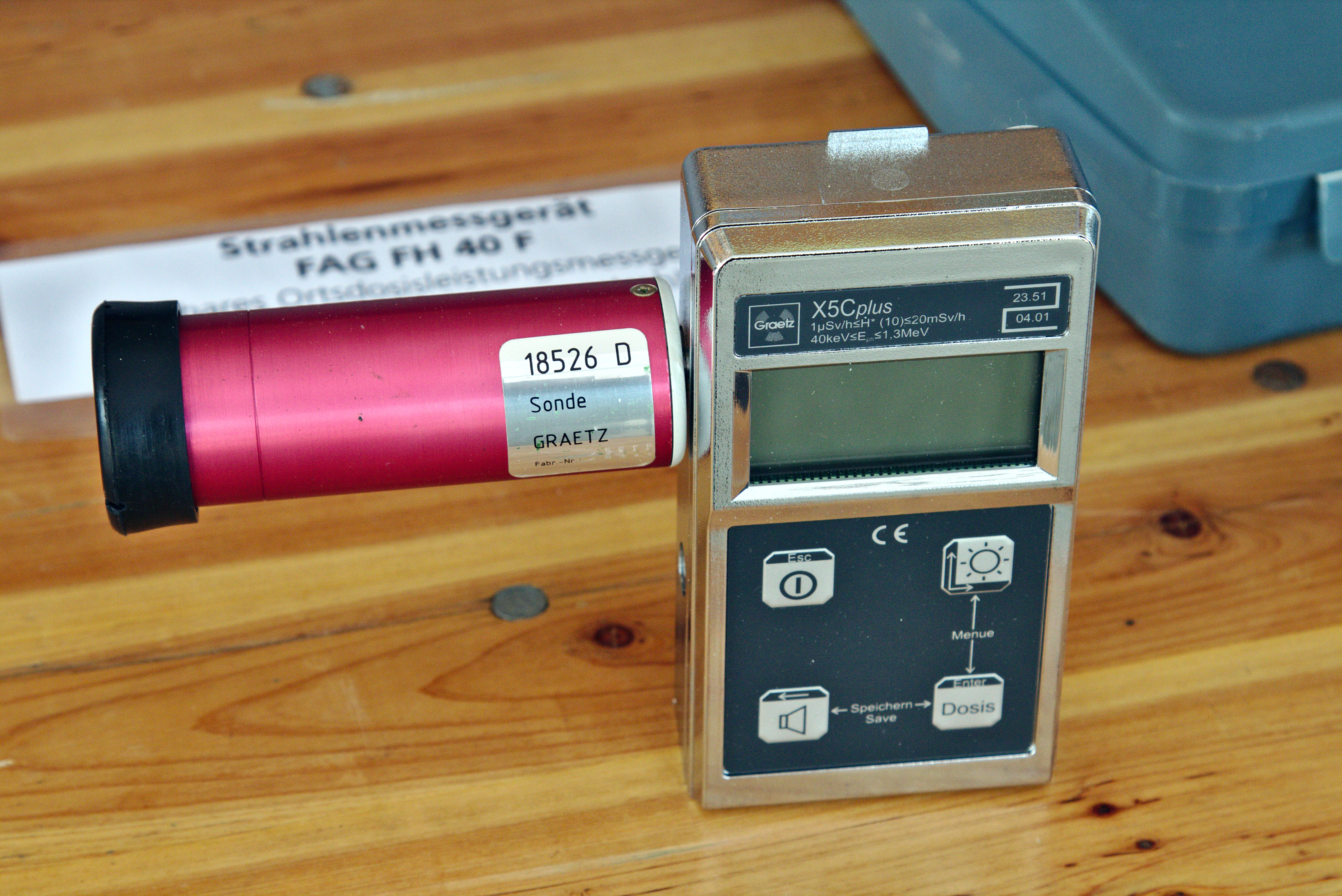 Ambient dose rate measurement device Graetz X5Cplus, on display on the open house of the local police in Oldenburg, Lower Saxony, Germany.